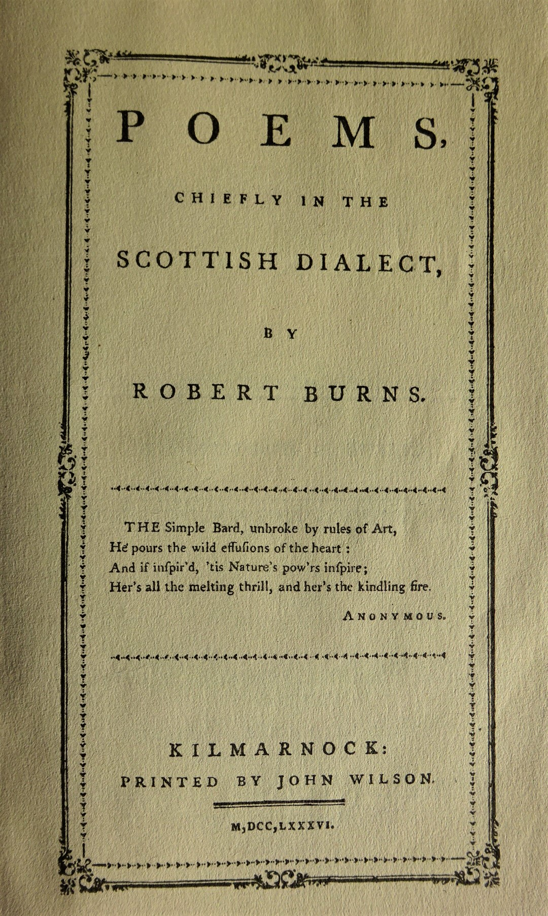 The Kilmarnock Edition, Robert Burns 'Poems, Chiefly in the Scottish Dialect'. 1927 facsimile by John Smith & Sons, Glasgow.